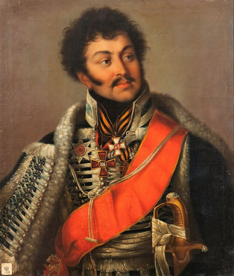 Shepelev Dmitriy Dmitrievich